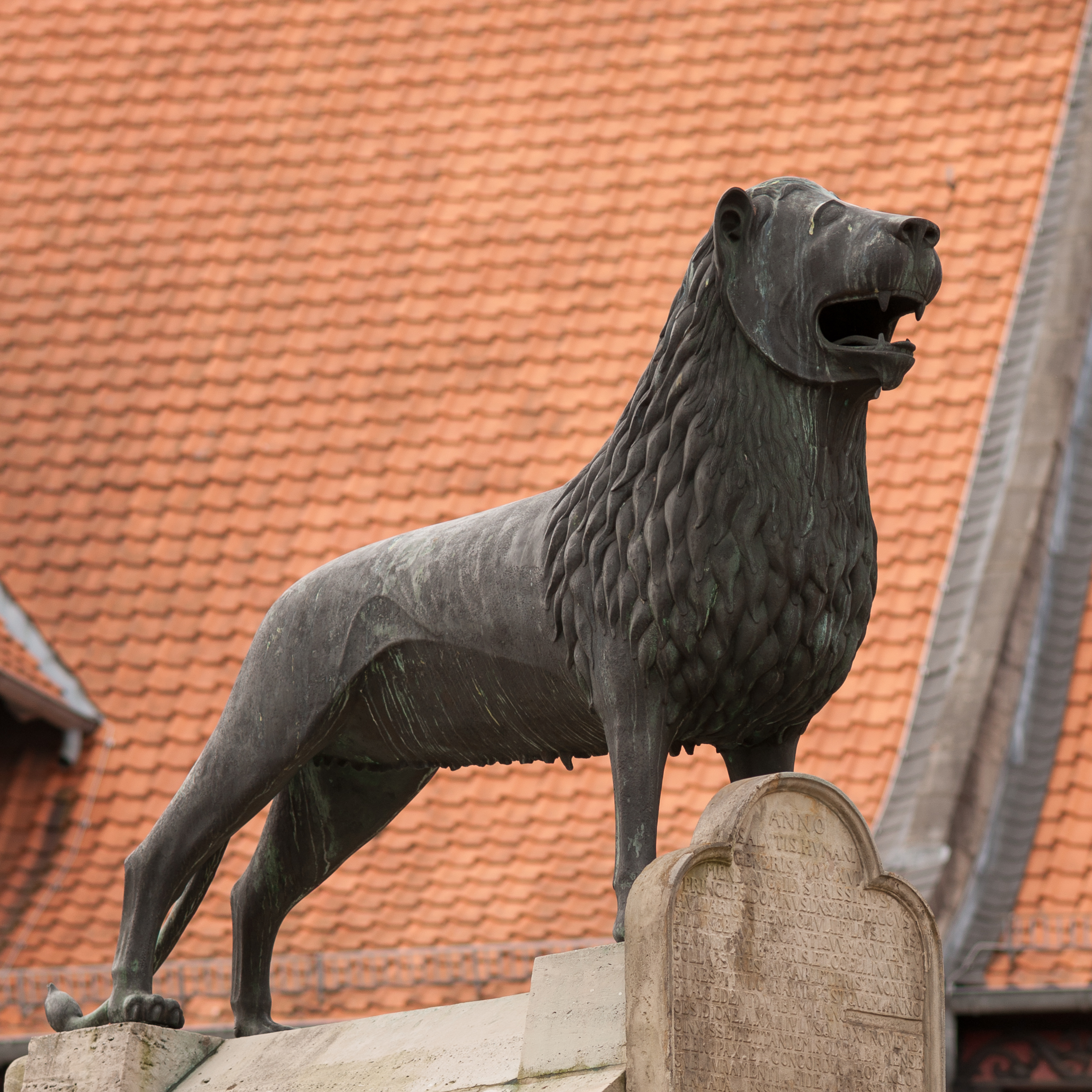 Brunswick Lion, Brunswick, Lower Saxony